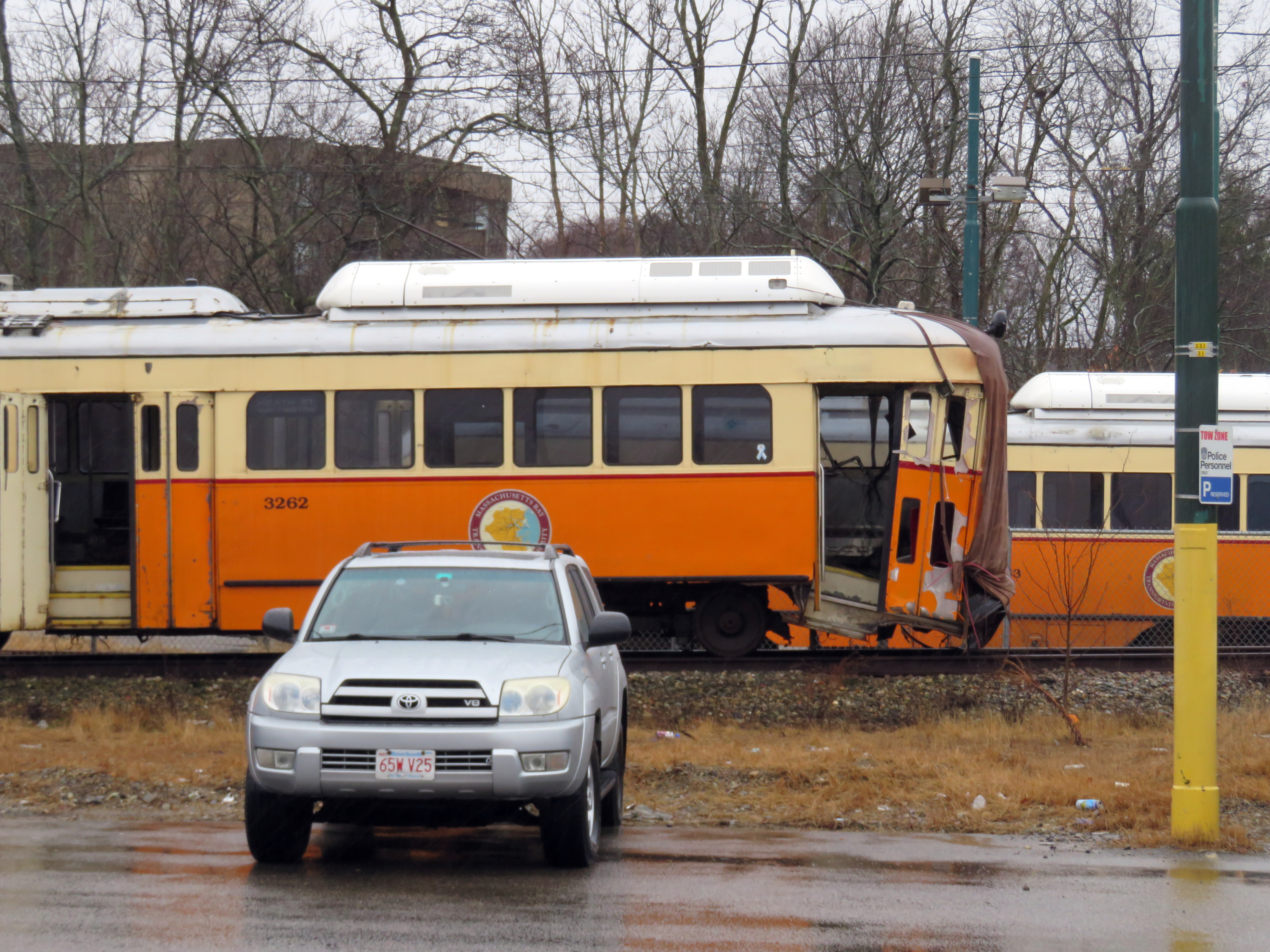 Streetcar #3262, wrecked in a December 2017 collision, stored for use as a parts source at Mattapan Carhouse in December 2018